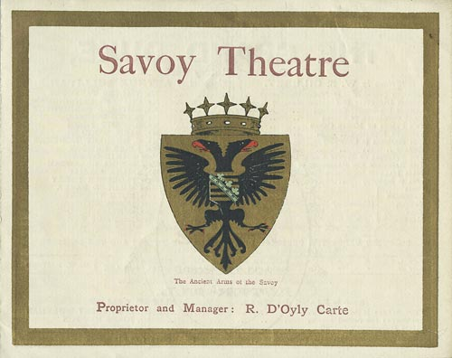 1896 Savoy Theatre programme showing the Savoy Coat of Arms.